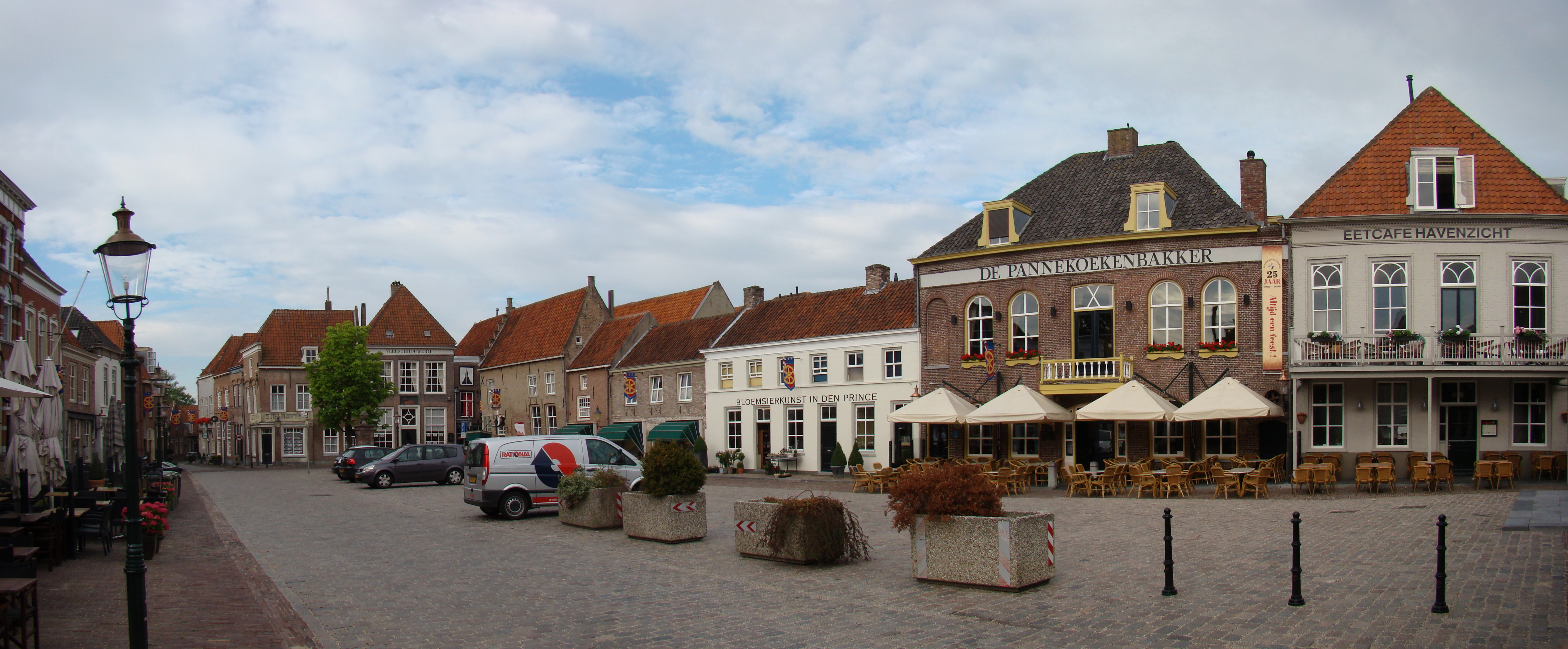 Panorama pictures of Heusden (Netherlands), Vismarkt